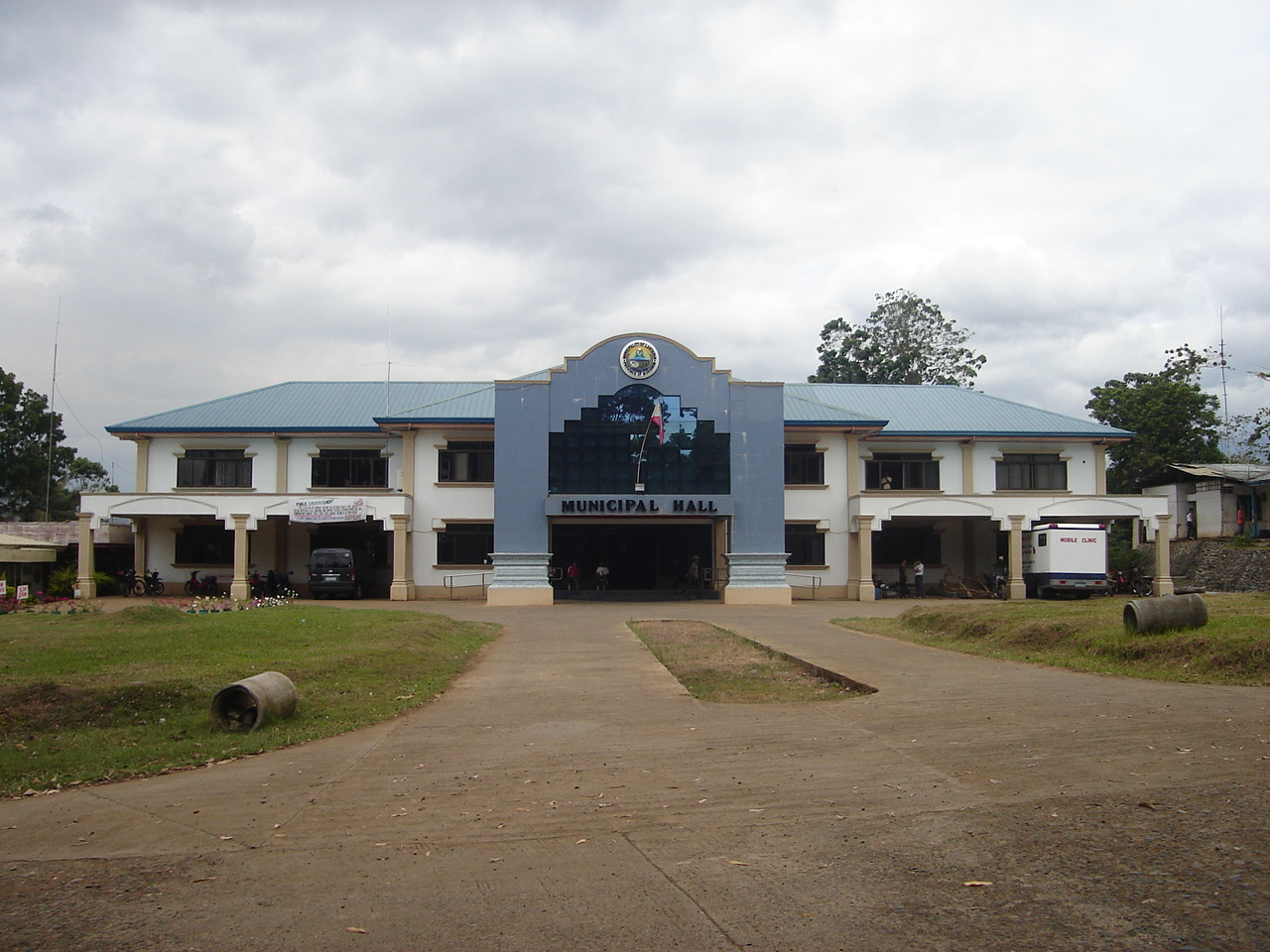 The Municipal Hall of Lantapan, Bukidnon